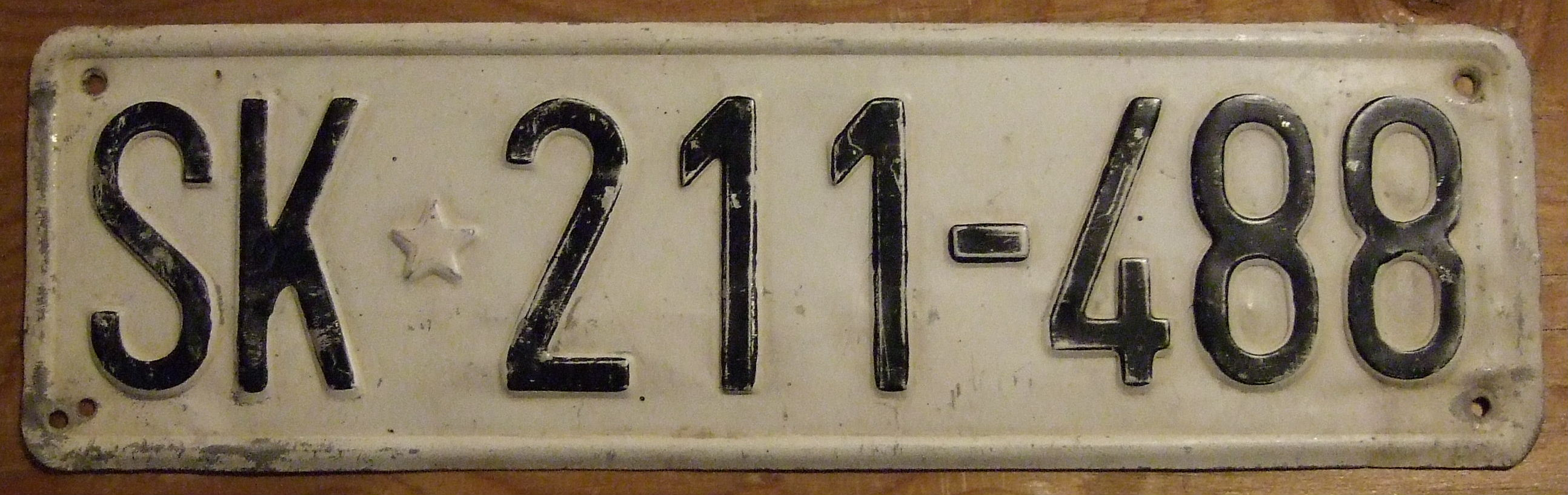 Yugoslavian license plate with the red star repainted white after Macedonia's independence from the former Yugoslavia.